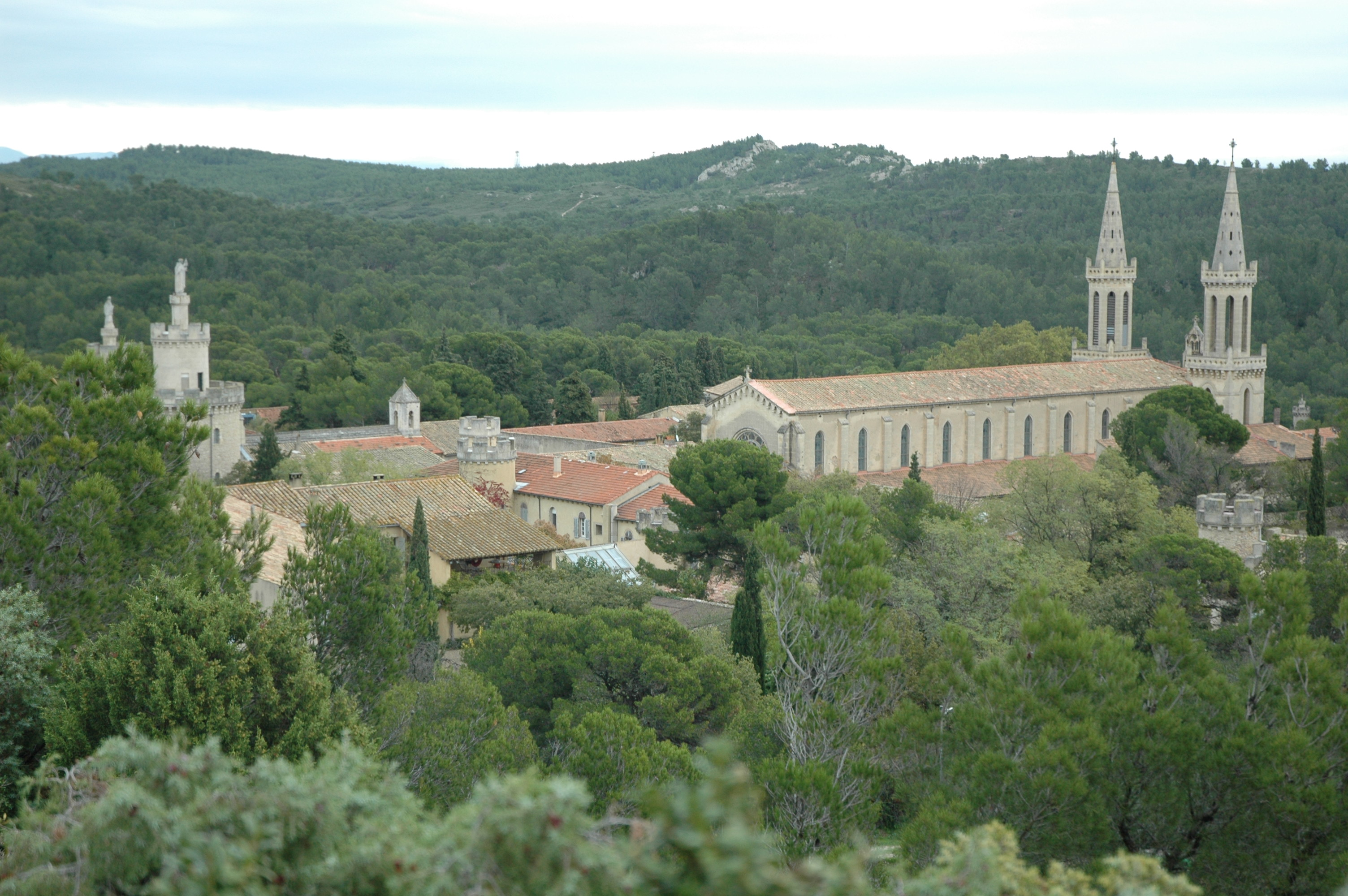 Saint-Michel de Frigolet Abbey is a Premonstratensian monastery in Provence.